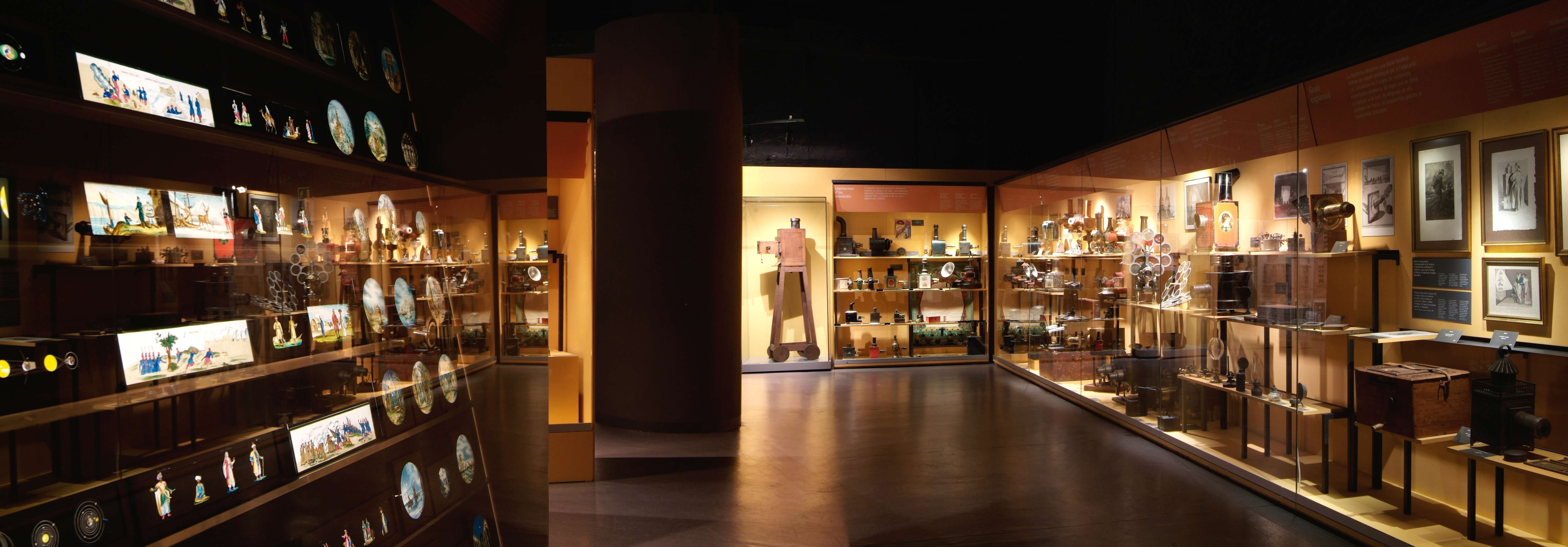 Cinema Museum in Girona (Catalonia)